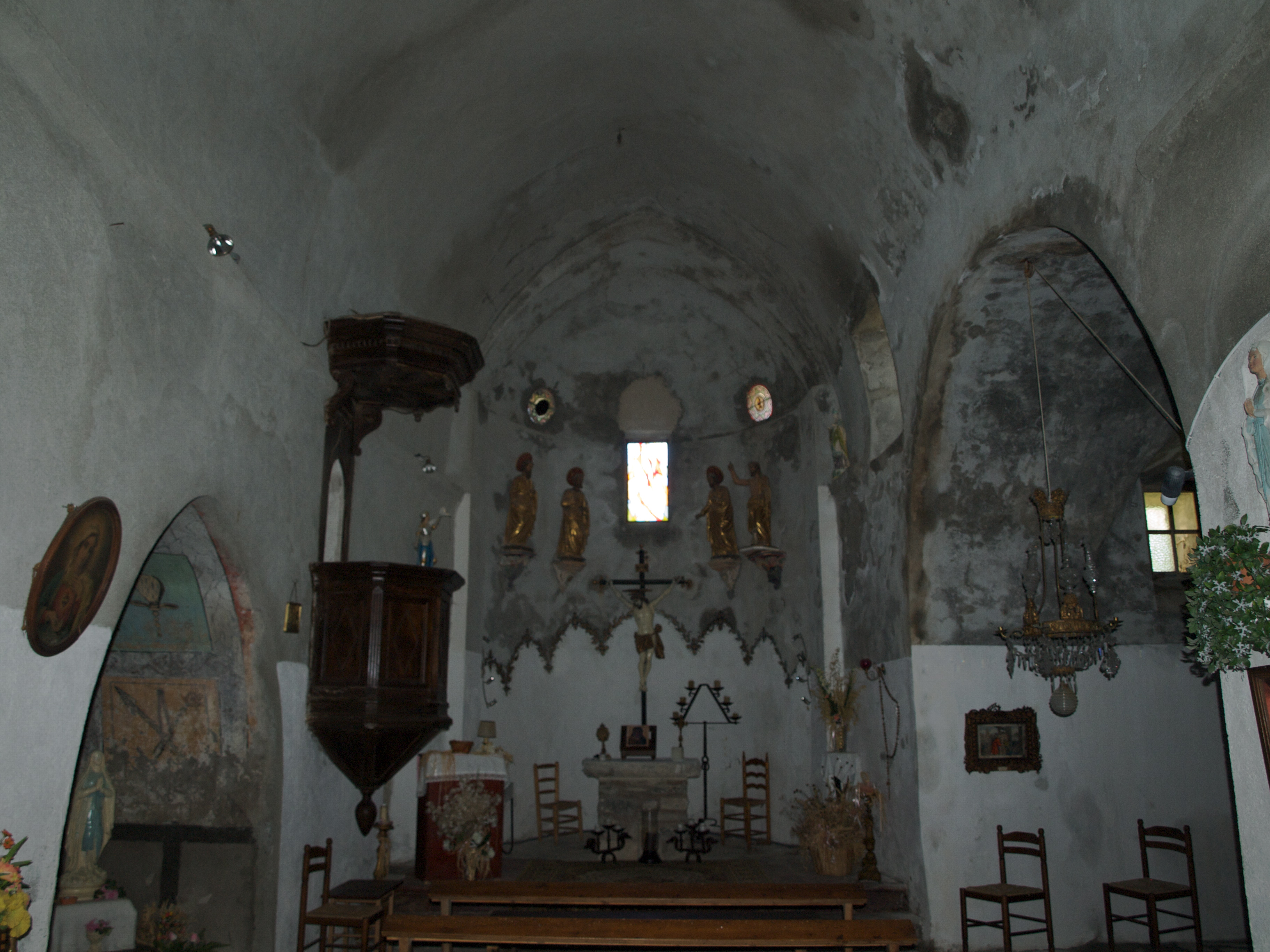 Photo of the little french town Urbanya